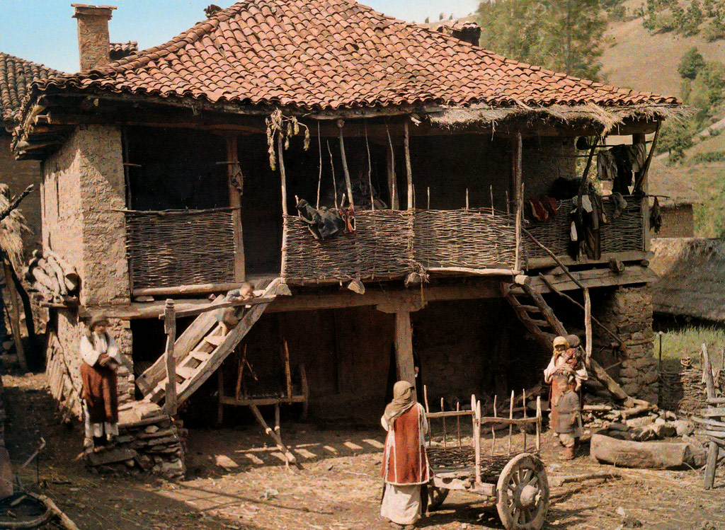 Autochrome photograph of house in the village Openica, Republic of Macedonia in 1913.